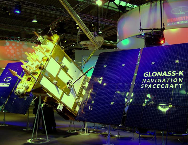 General view of the Glonass-K Navigation Spacecraft at CeBIT 2011